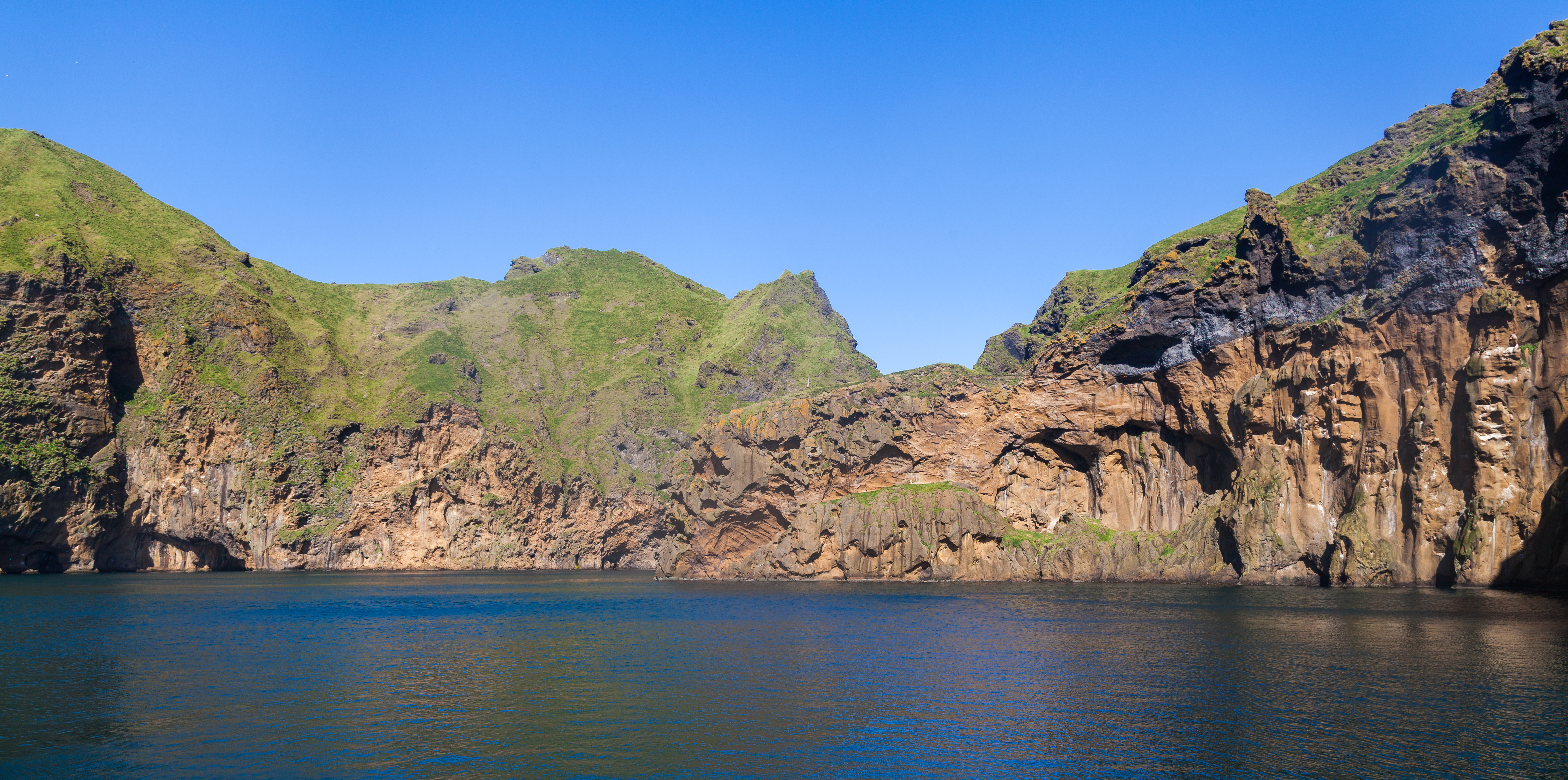 Cliffs of Heimaey, Westman Islands, Suðurland, Iceland